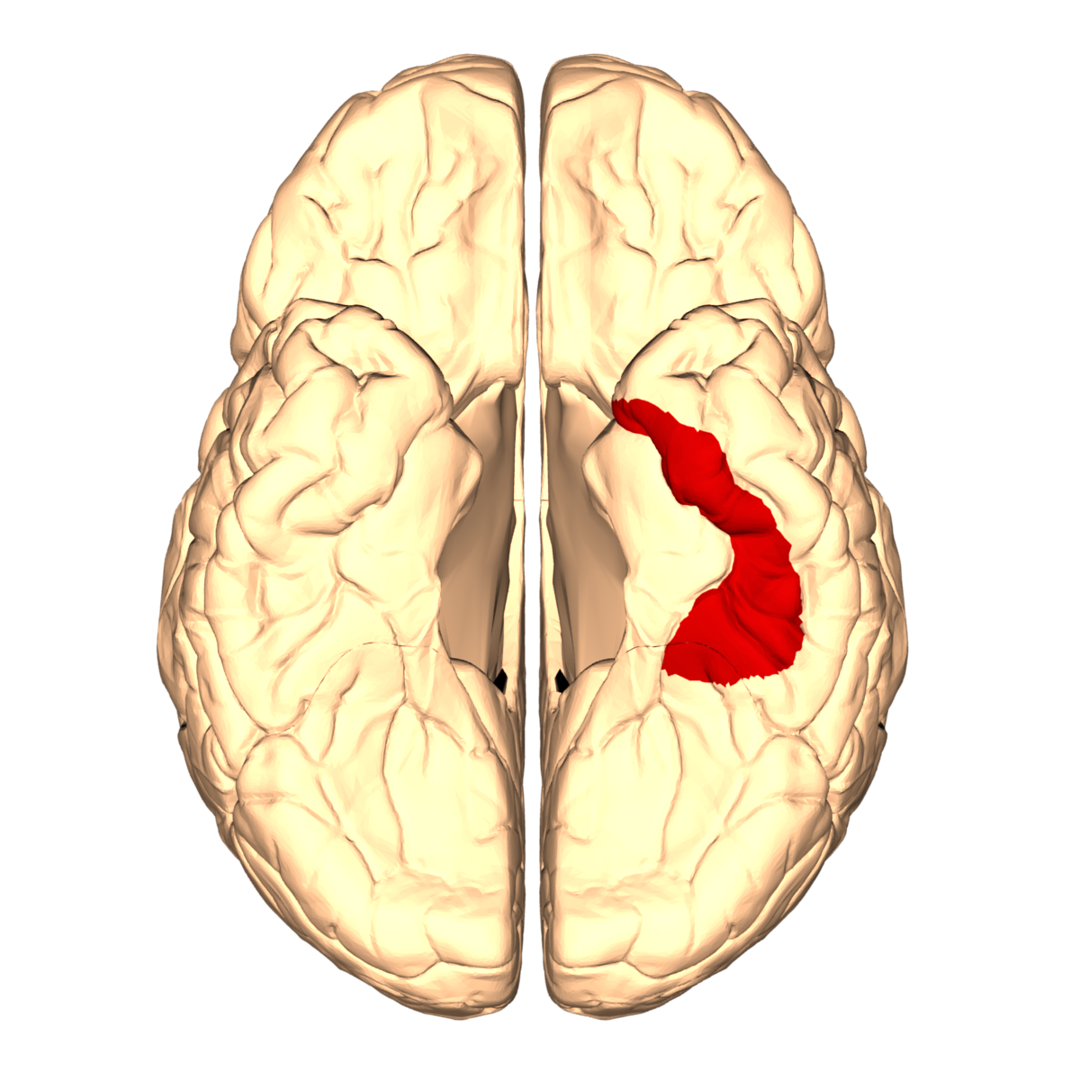 Brodmann area 36 (shown in red).